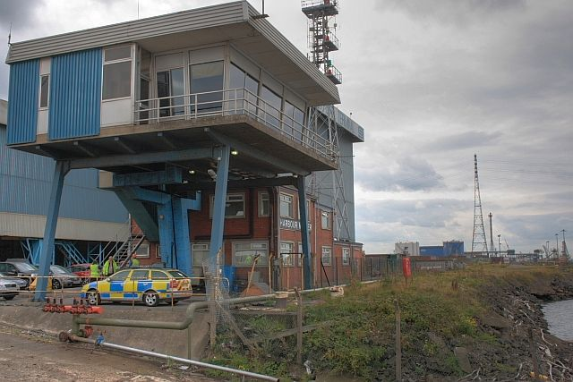 Harbourmaster's Office, Teesport